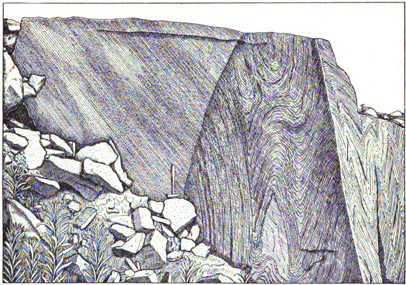 Figure 26 from The Origin and Relations of Central Maryland Granites (Extract from the 15th Annual Report of the U. S. Geologic Survey, 1893-94) by Charles Rollin Keyes, 1895. Caption is "Gneiss inclusion in granite, Woodstock, Md." Today the gneiss is mapped as the Baltimore Gneiss and the granite is the Woodstock Quartz Monzonite.